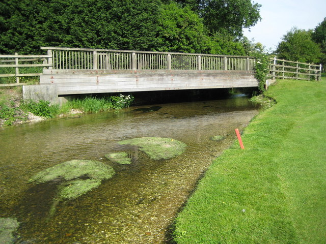 River Misbourne in Denham This chalk stream is seen here as it cuts across the Buckinghamshire Golf Club's course.